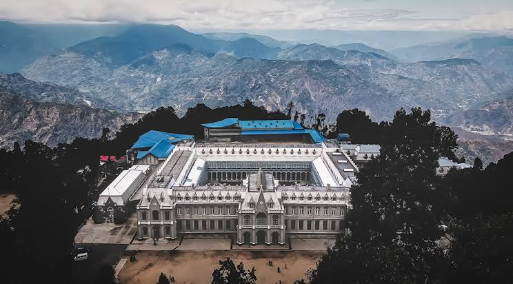 aerial view